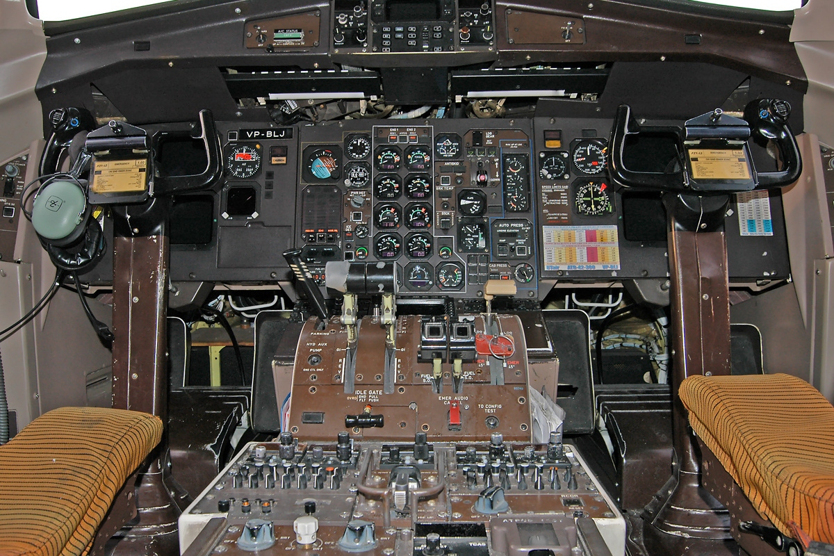 Big thanks to friendly crew!